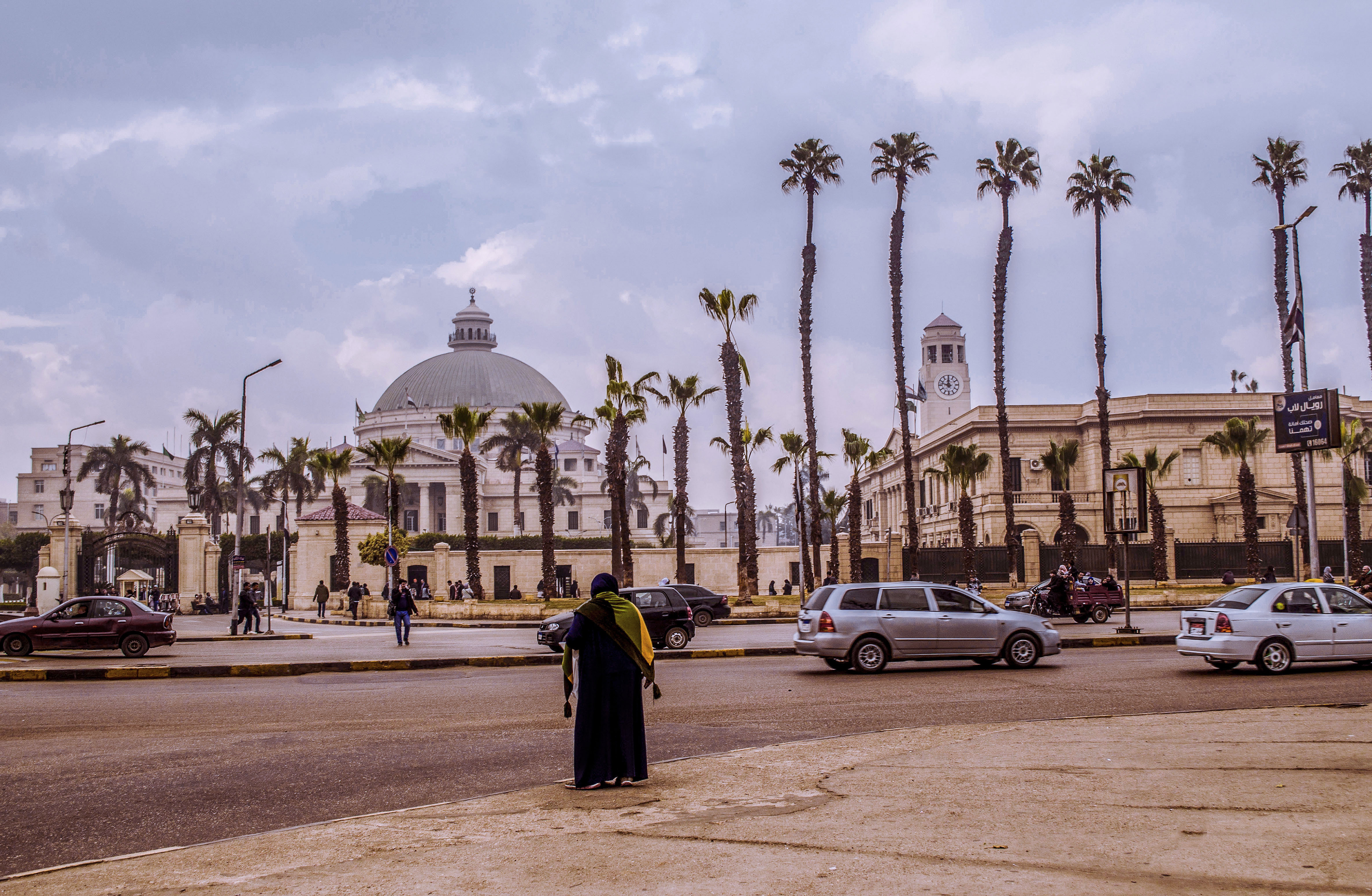 This is an image with the theme "Africa on the Move or Transport" from: Egypt